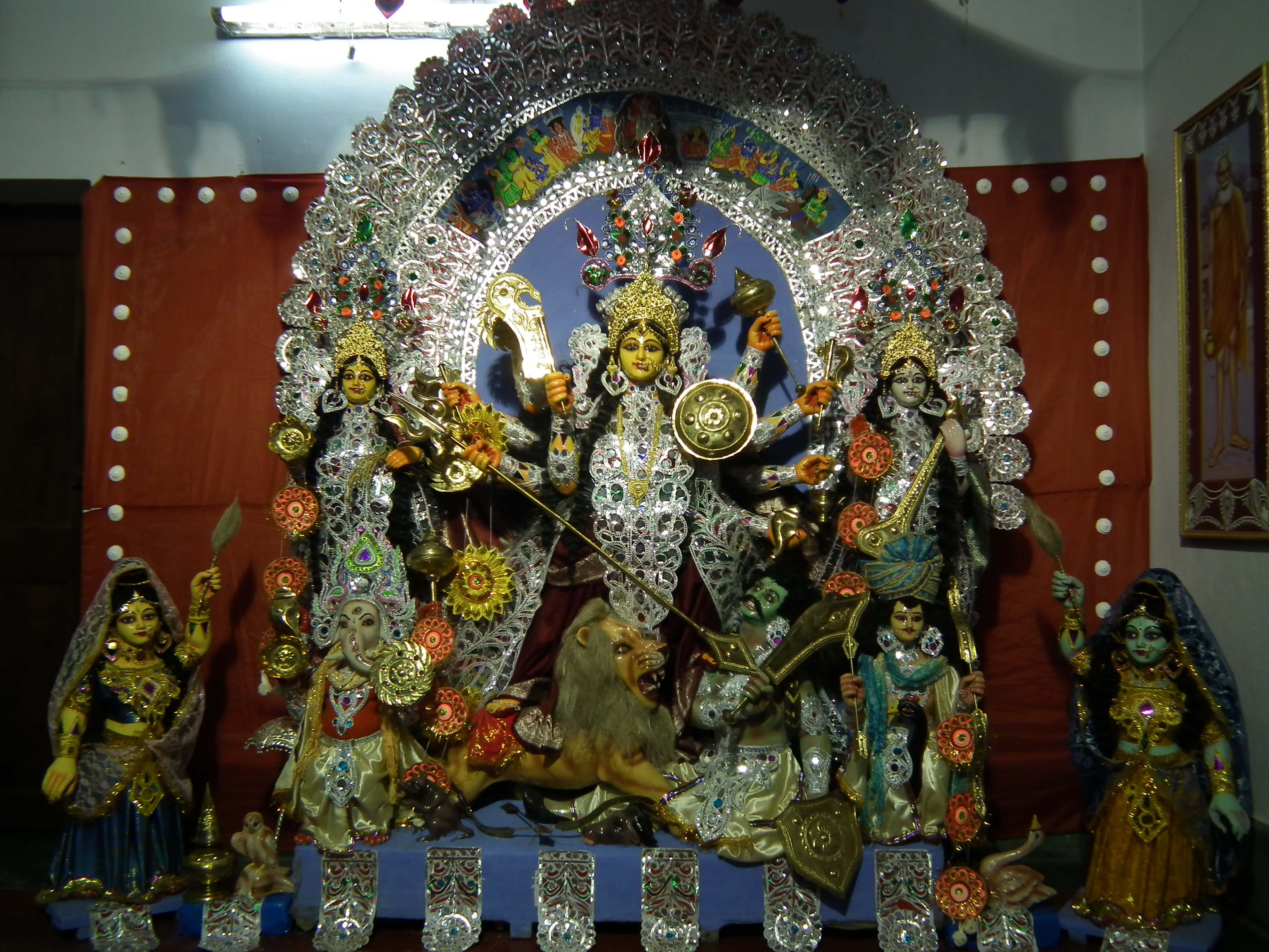 traditional durga idol from kolkata with a "opar bangla" touch